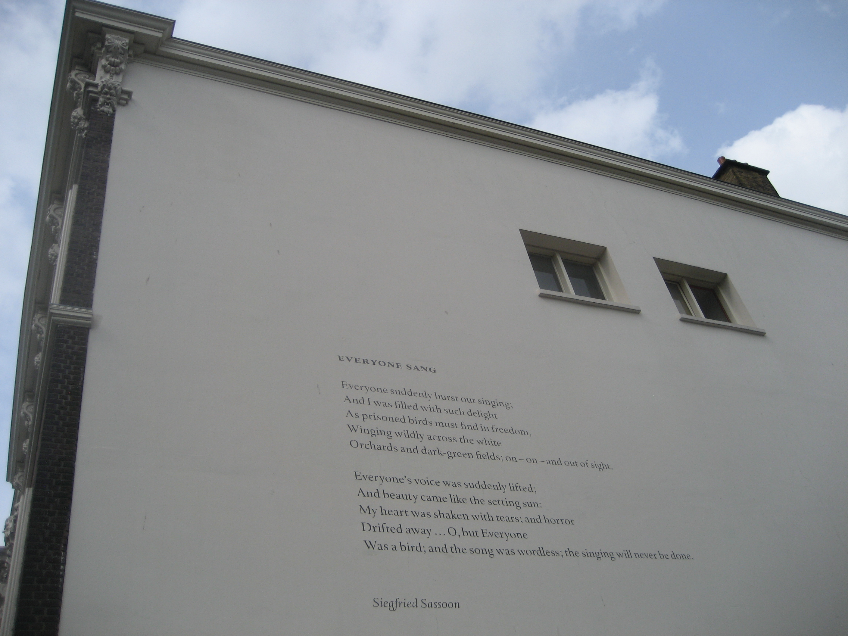 Poem Everyone Sang by Siegfried Sassoon, on the wall of the house at Burgemeester van Karnebeeklaan 3, The Hague (the Netherlands)